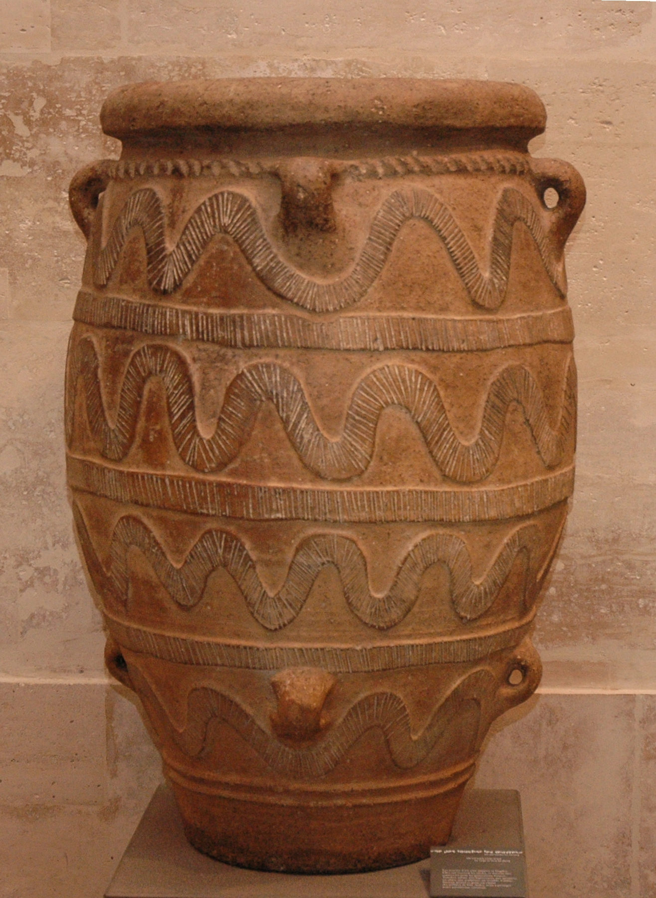 Four-handled pithos, Early Minoan II (ca. 1500 BC). Found in Knossos, Crete.